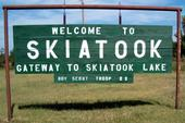 Sign that is on State highway 20 as you enter Skiatook.